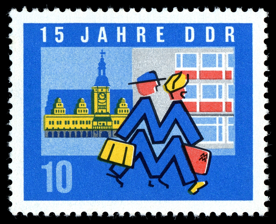 Ausgabepreis: 10 Pfennig First Day of Issue / Erstausgabetag: 6. Oktober 1964 Auflage: 3.500.000 Entwurf: Henning und Dorfstecher Druckverfahren: Offsetdruck Michel-Katalog-Nr: Ländercode-MiNr: 1067 A Licensing This file is most likely NOT in the public domain. It has been marked for review, and will be deleted in due course if the review does not find it to be in the public domain.This file was previously considered to be in the public domain as a German stamp; it is possible that it is in the public domain for other reasons, in which case a new rationale will be applied as part of the review process. See below for the previous rationale. Previous public domain rationale, no longer applicable This stamp is in the public domain in Germany because it was released by the postal administration of the German Democratic Republic or the Soviet occupation zone (Deutschen Post der DDR) whose legal successor is the Federal Republic of Germany. Thus it is an official work according to German copyright law (§ 5 Abs. 1 UrhG).